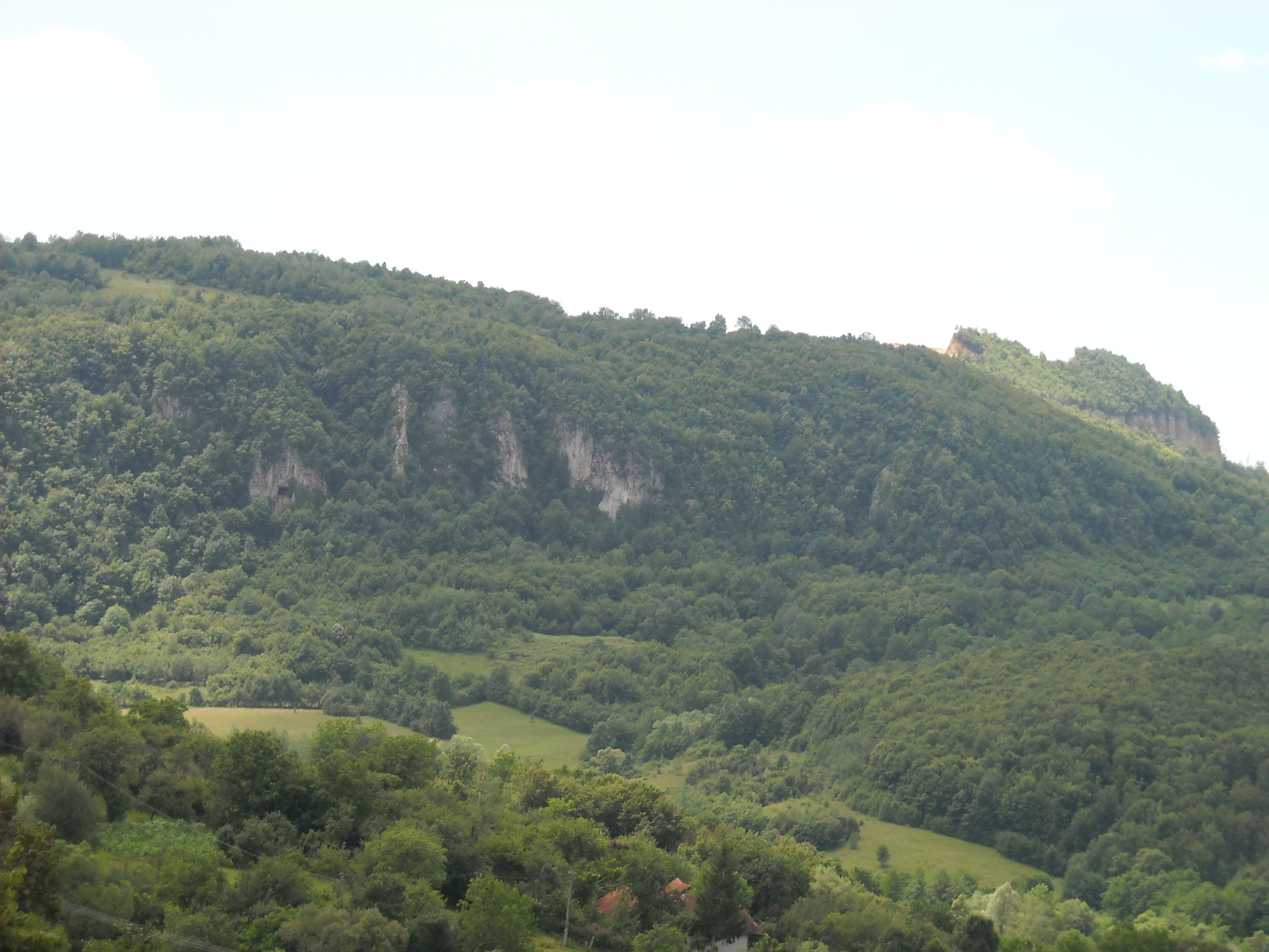 cliffs near Ormindea village